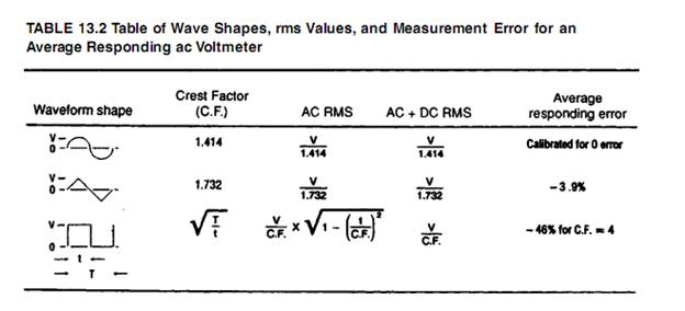 Table of Wave Shapes, rms Values, and Measurement Error for an Average Responding ac Voltmeter